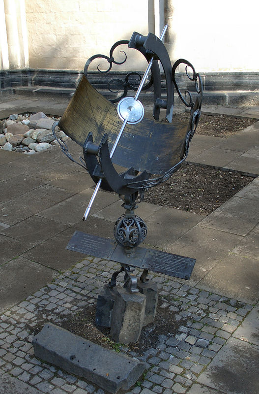 Sundial nearby the Church St. Castor in Koblenz